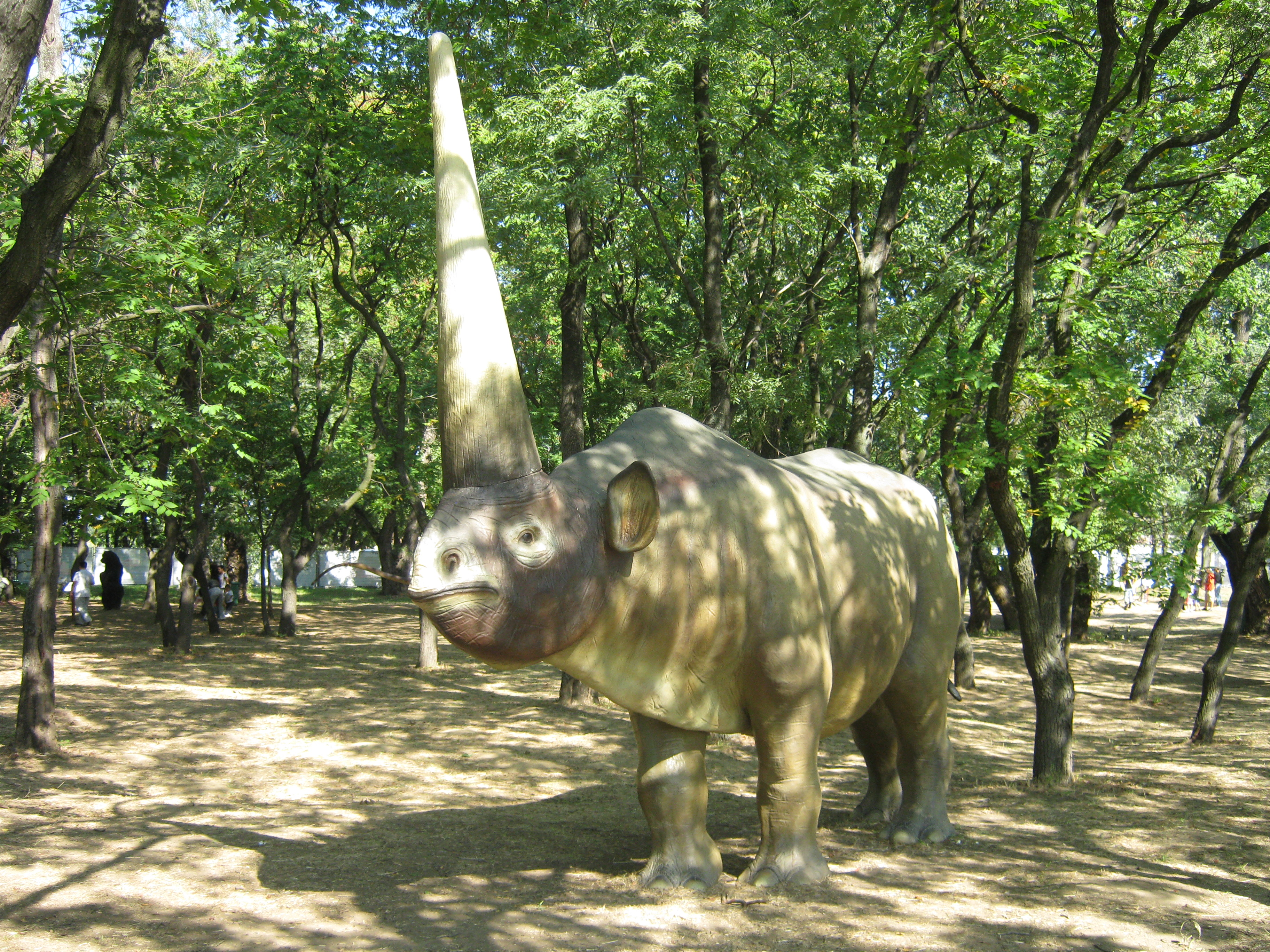 Elasmotherium model